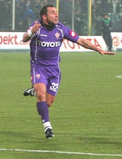 Charistin Brocchi